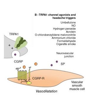 Biomechanisme